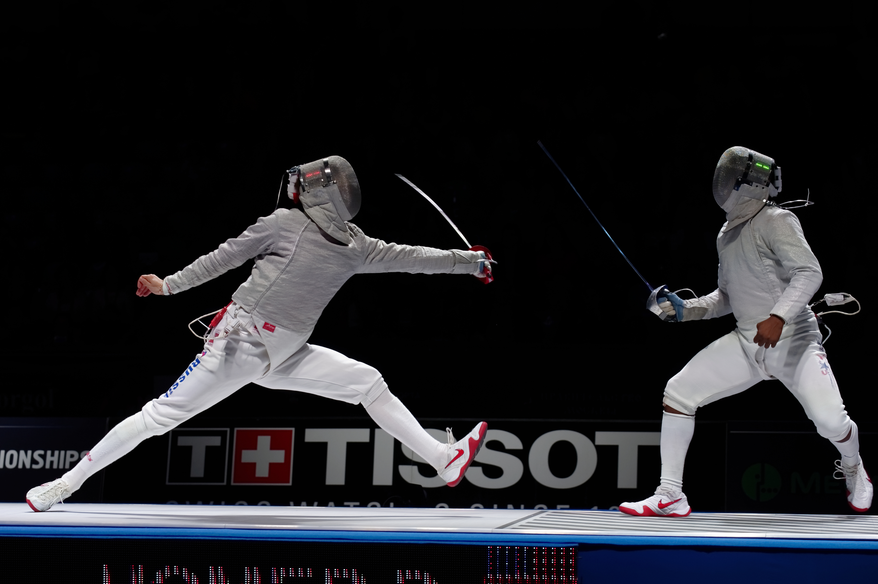 Russia's Aleksey Yakimenko (left) lunges at the United States' Daryl Homer (right) in the final of the 2015 World Fencing Championships on 14 July 2014 at the Olympic Stadium in Moscow.